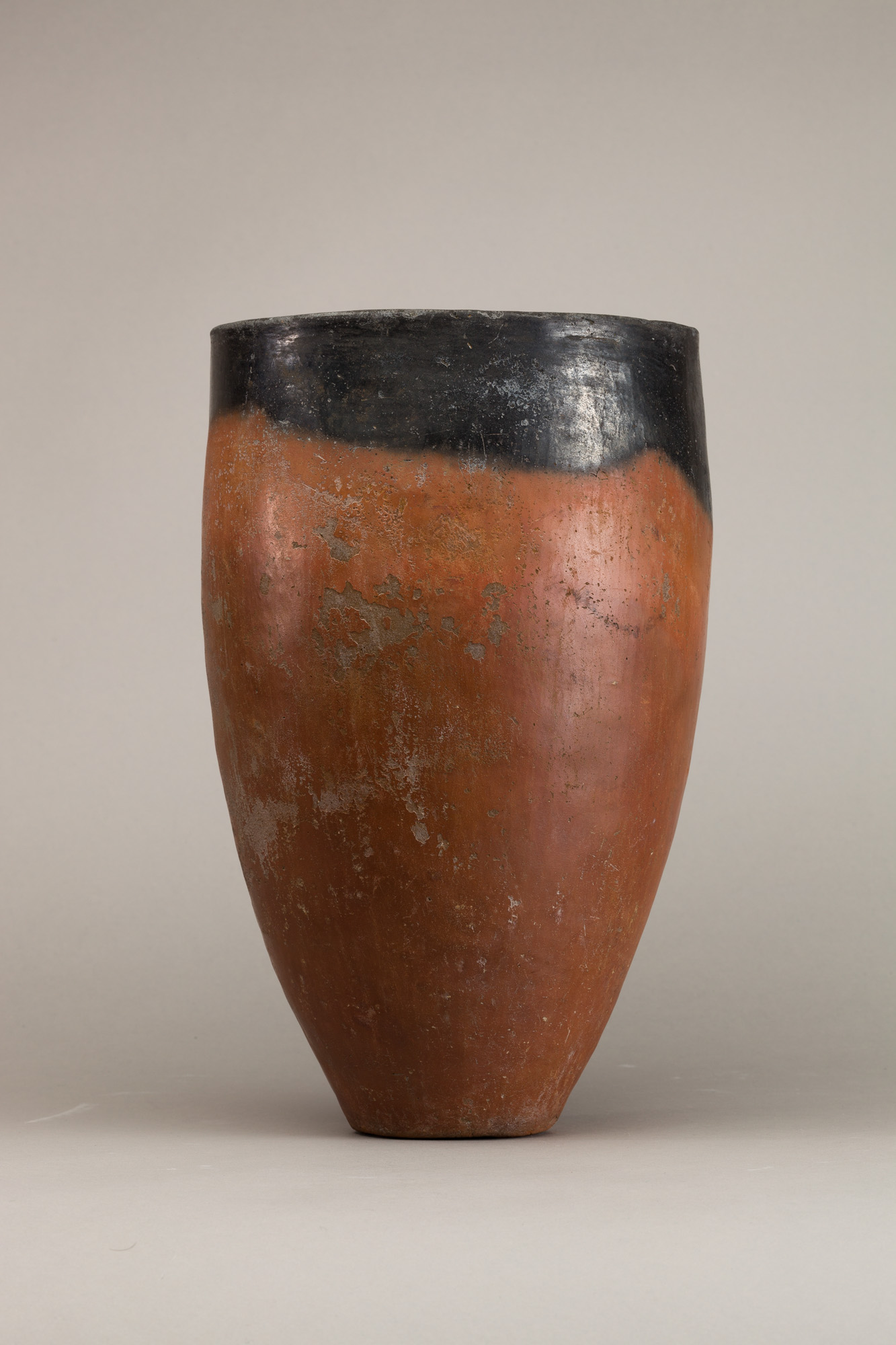 Beaker, black topped